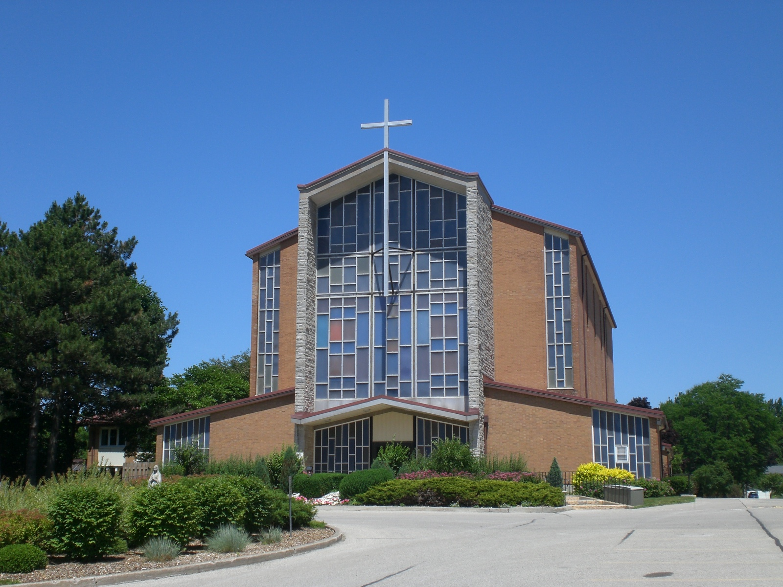 Church front entrance with statue of St. Mary in the traffic island to the left foreground of the picture.